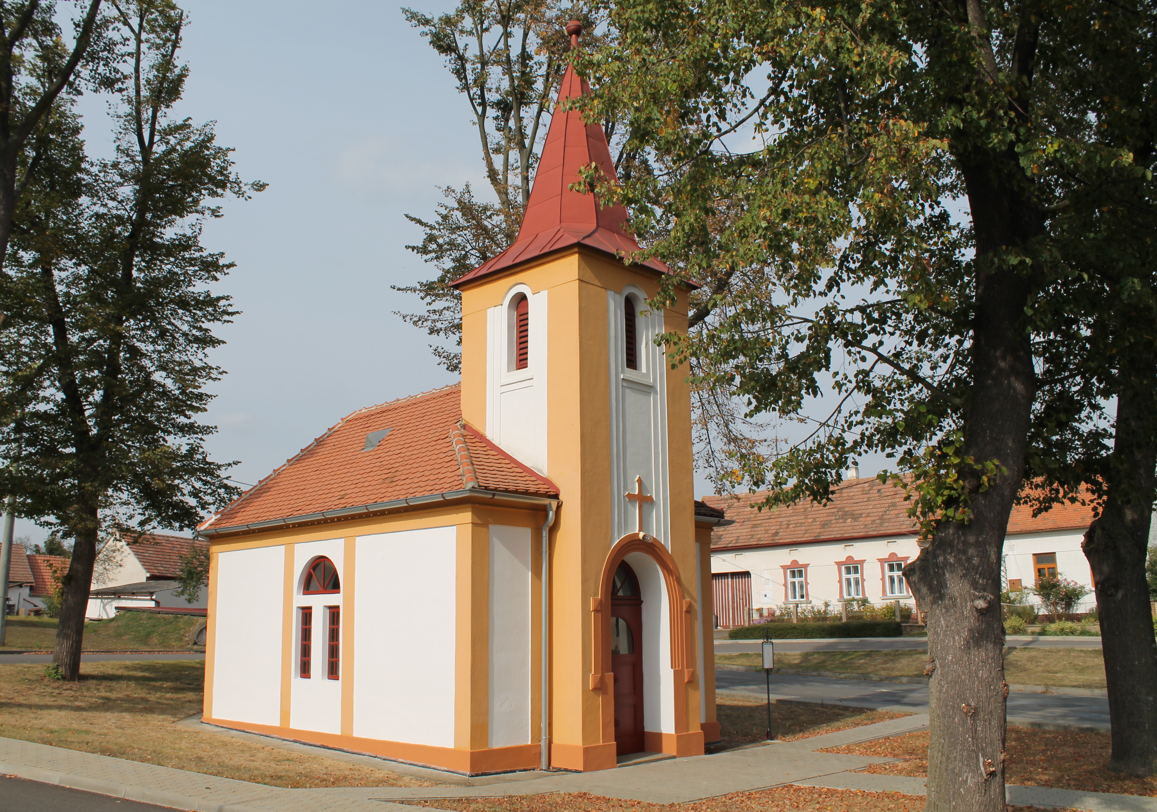 Chapel of the Assumption of the Virgin Mary, Vevčice, Znojmo District, Czech Republic This photograph was taken during a group photography field trip by Brno Wikipedians: 2016-09-28.